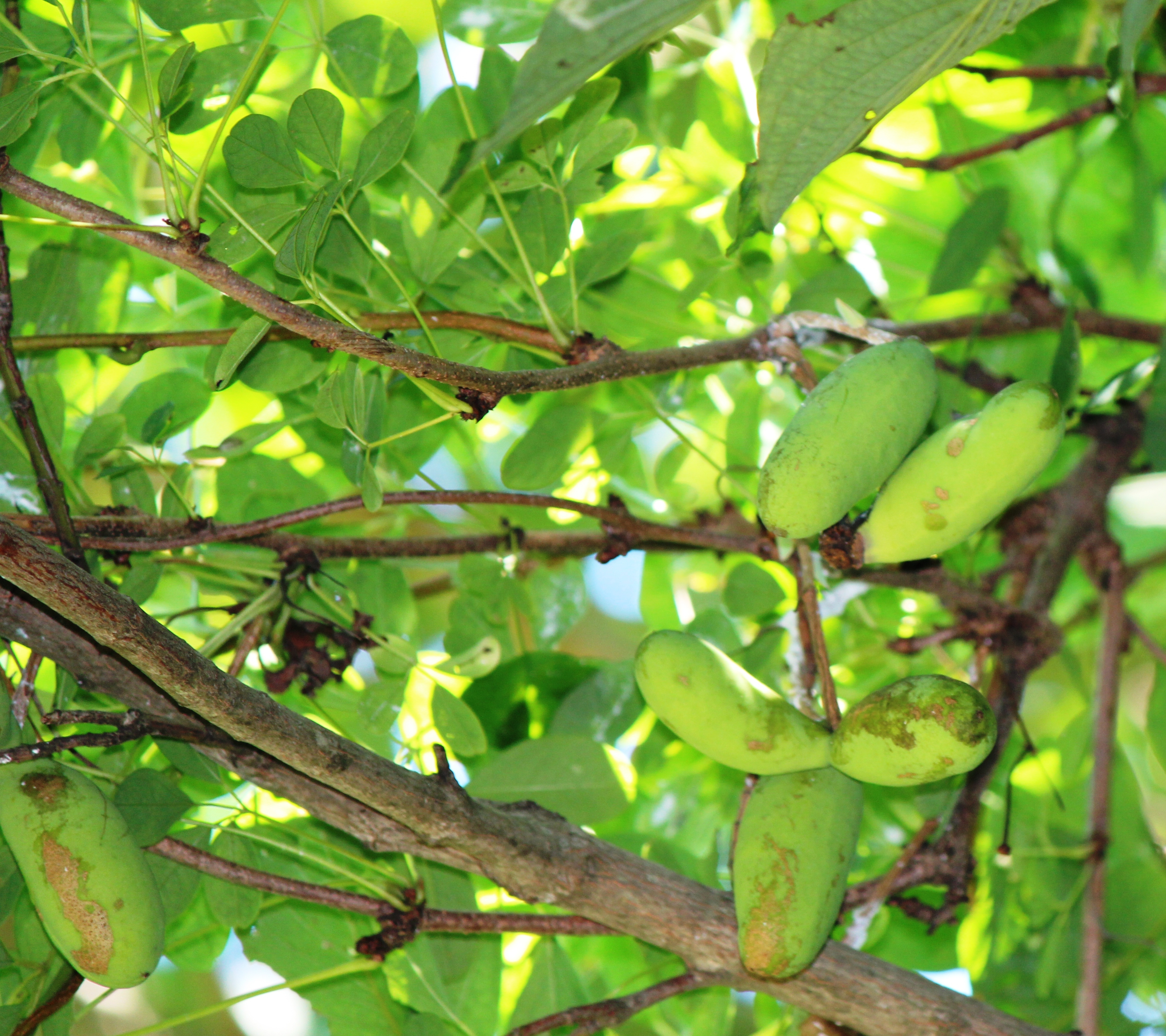 Young fruits of Chocolate Vine (Akebia quinata (Houtt.) Decne. ) in Mount Ibuki, Shiga prefecture, Japan.